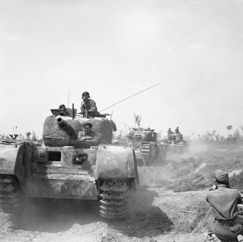 Churchill tanks being filmed by an AFPU cameraman during the advance of 56th Division north-east of Argenta, Italy, 17 April 1945. Churchill tanks are filmed by an AFPU cameraman during the advance of 56th Division north-east of Argenta, 17 April 1945.